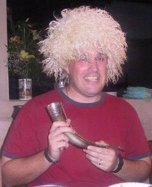 Public Affairs Intern wearing a traditional "Papakhi" hat.